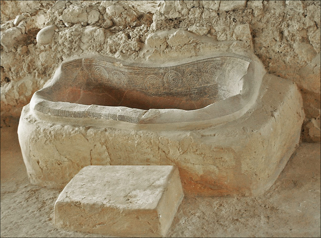 Nestor's bathtub in Pylos.